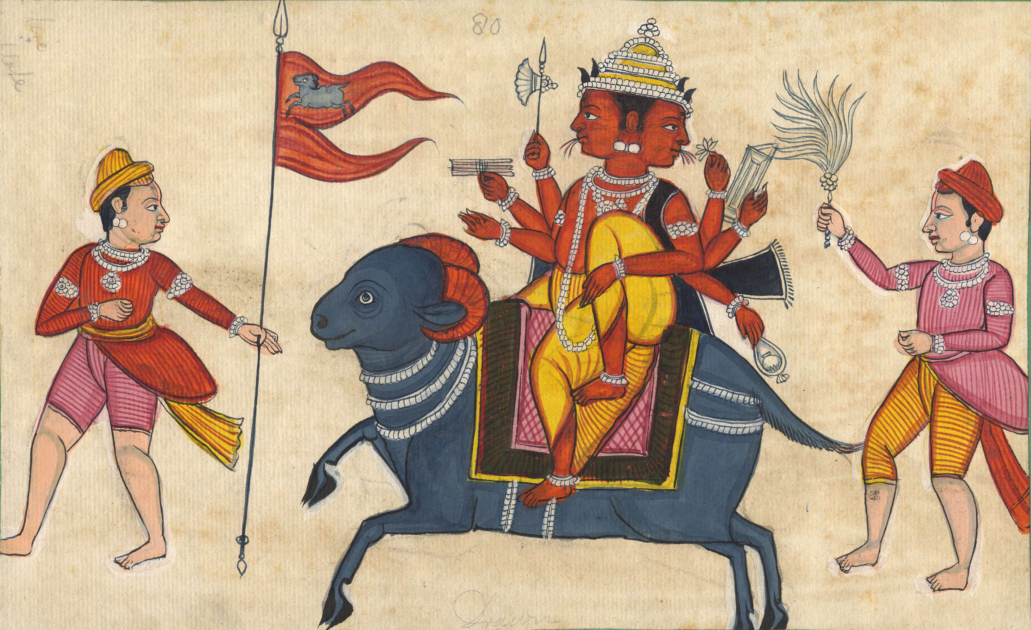 "The Hindu deity Agni on his ram mount and accompanied by two attendants. Agni is depicted with seven arms, two heads and three legs. He has seven fiery tongues with which he licks sacrificial butter. The attributes held in his hands included an axe and prayer beads."